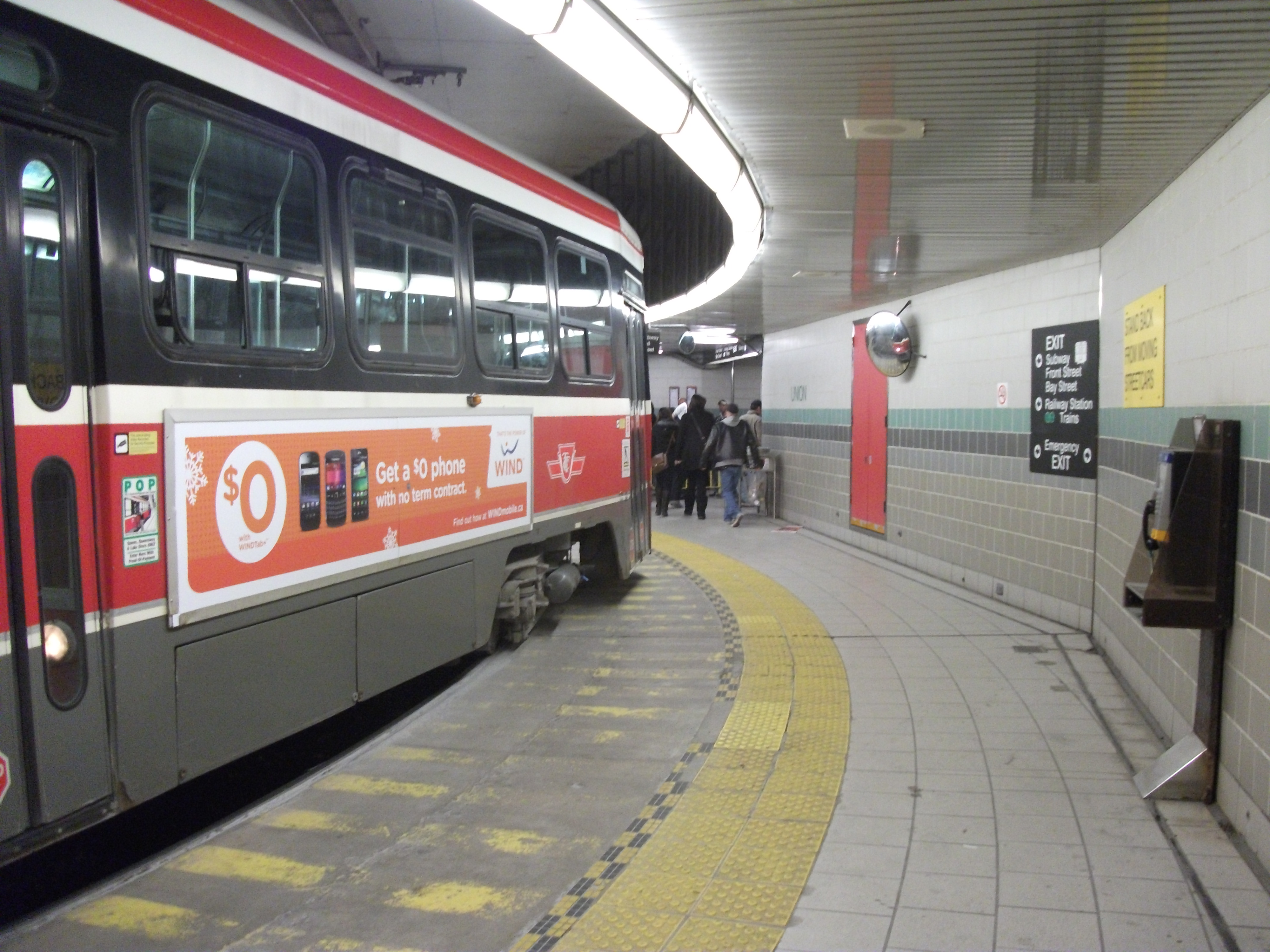 Union Station underground streetcar stop. Future plans will add more streetcar lines stopping here, which will require expansion, so each line has its own waiting area.